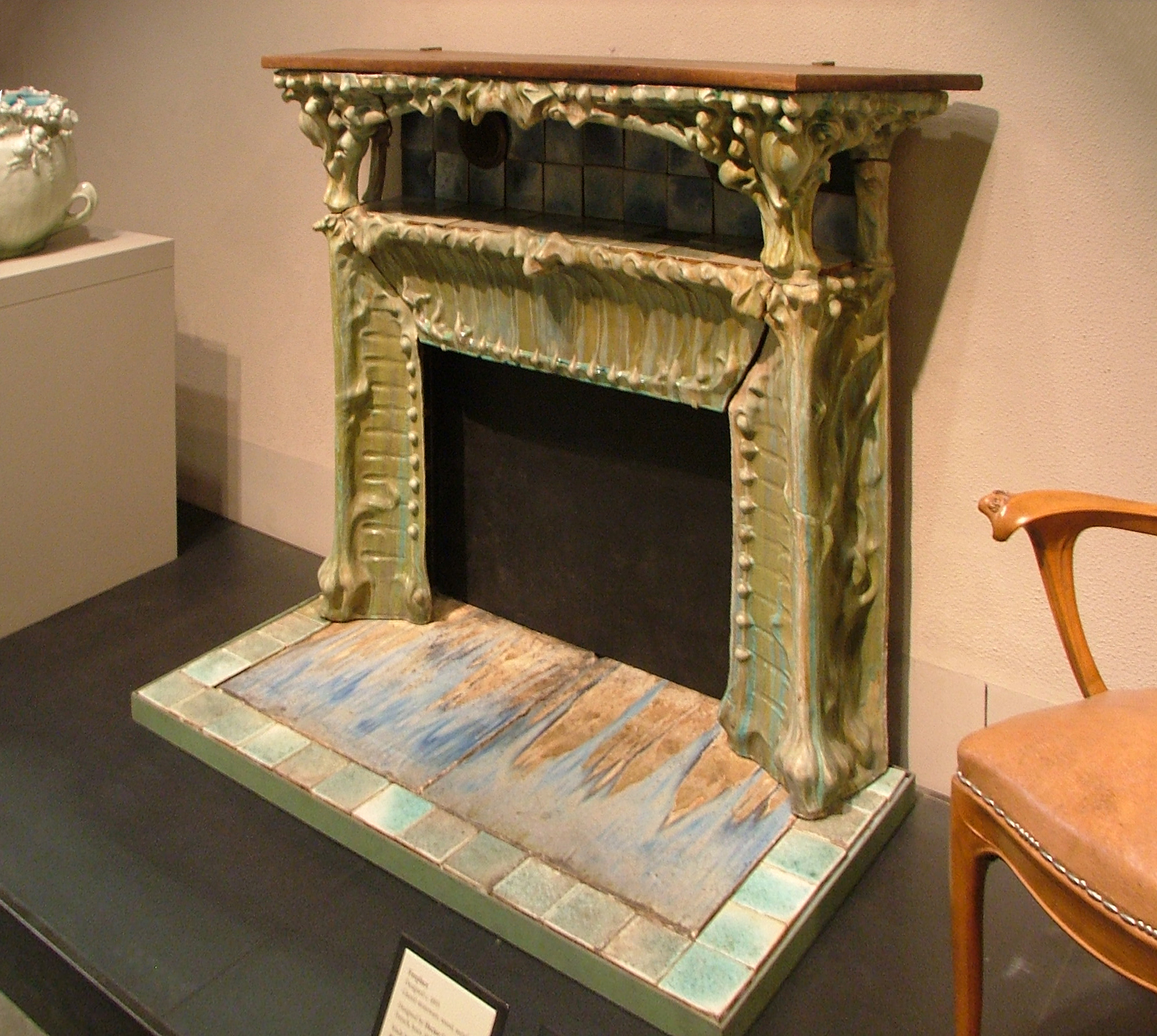 Fireplace designed by Hector Guimard and Manufactured by Alexandre Bigot, in the collection of the Philadelphia Museum of Art (USA), ca. 1895. Аҧсшәа: Cheminée dessinée par Hector Guimard et fait par Alexandre Bigot, dans la collection du Philadelphia Museum of Art (E-U), vers 1895.